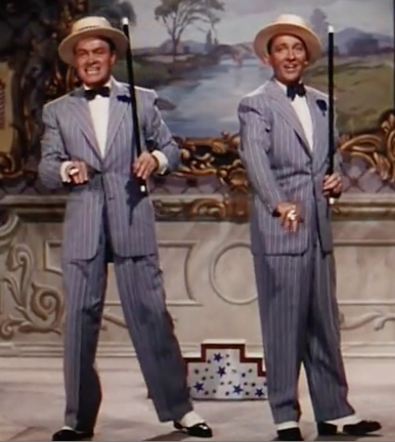 Cropped screenshot of Bob Hope and Bing Crosby from the film Road to Bali.